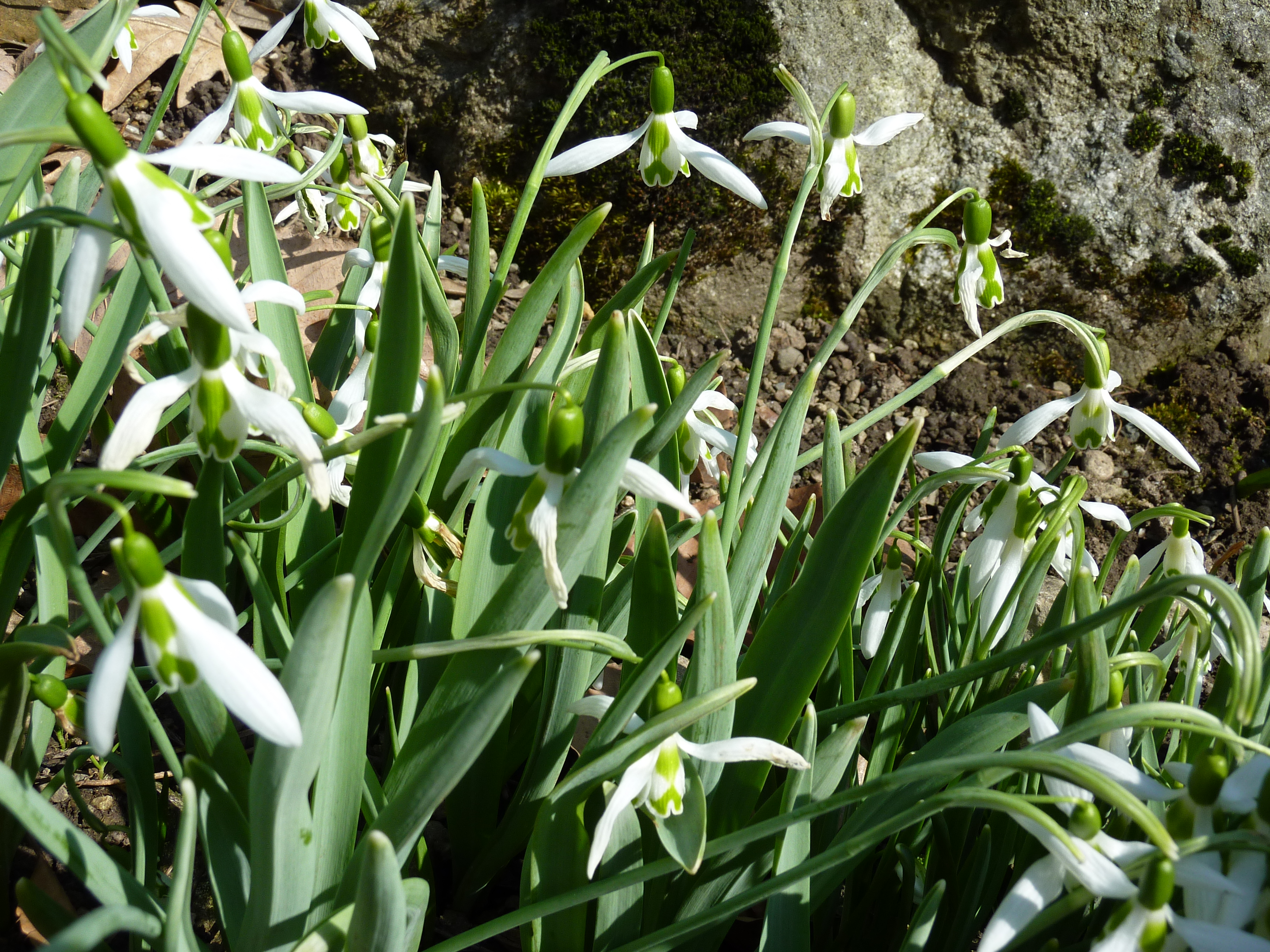 Galanthus gracilis in the Botanischer Garten Freiburg